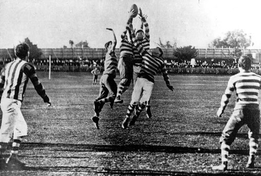 Australian rules football players leap to take a mark: East Fremantle vs. South Fremantle, Fremantle Oval.